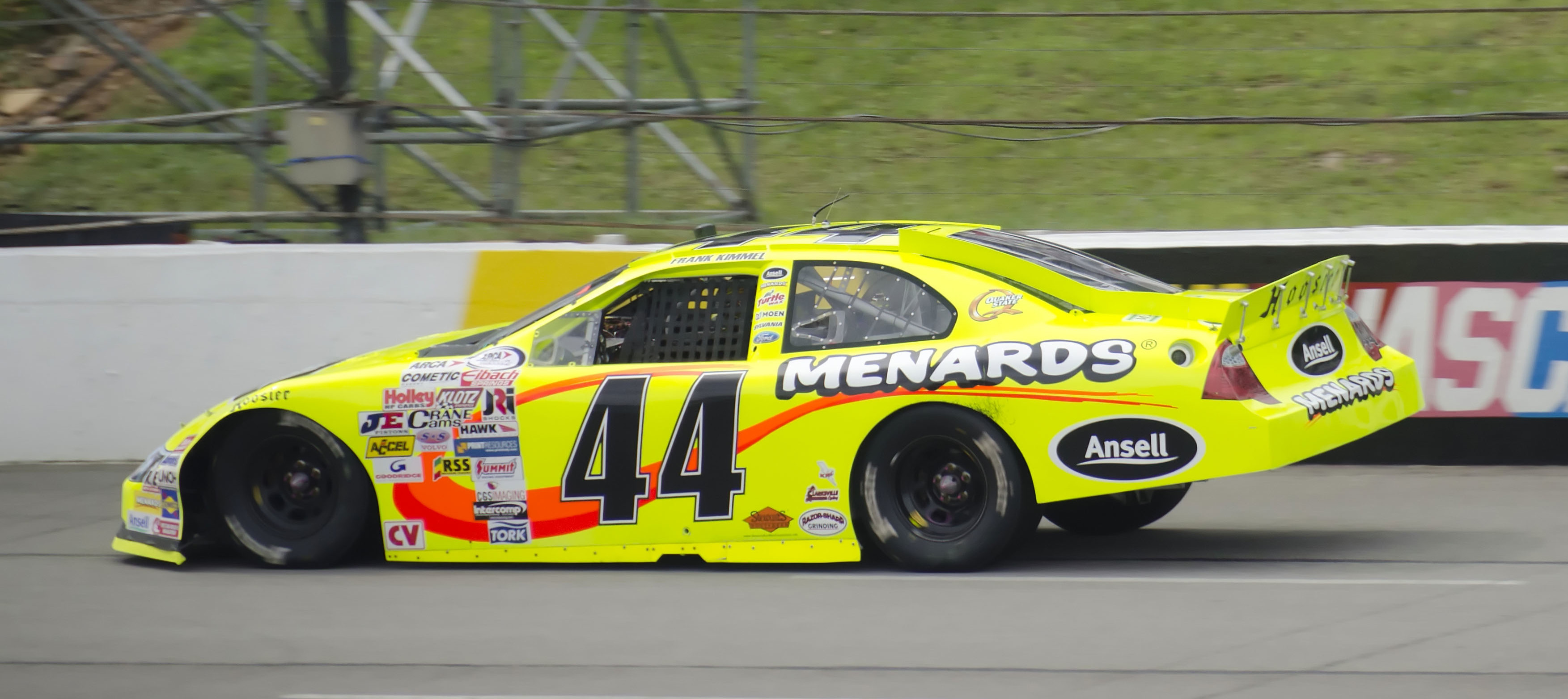 Frank Kimmel's No. 44 Menards/Ansell Ford at Pocono Raceway in 2011